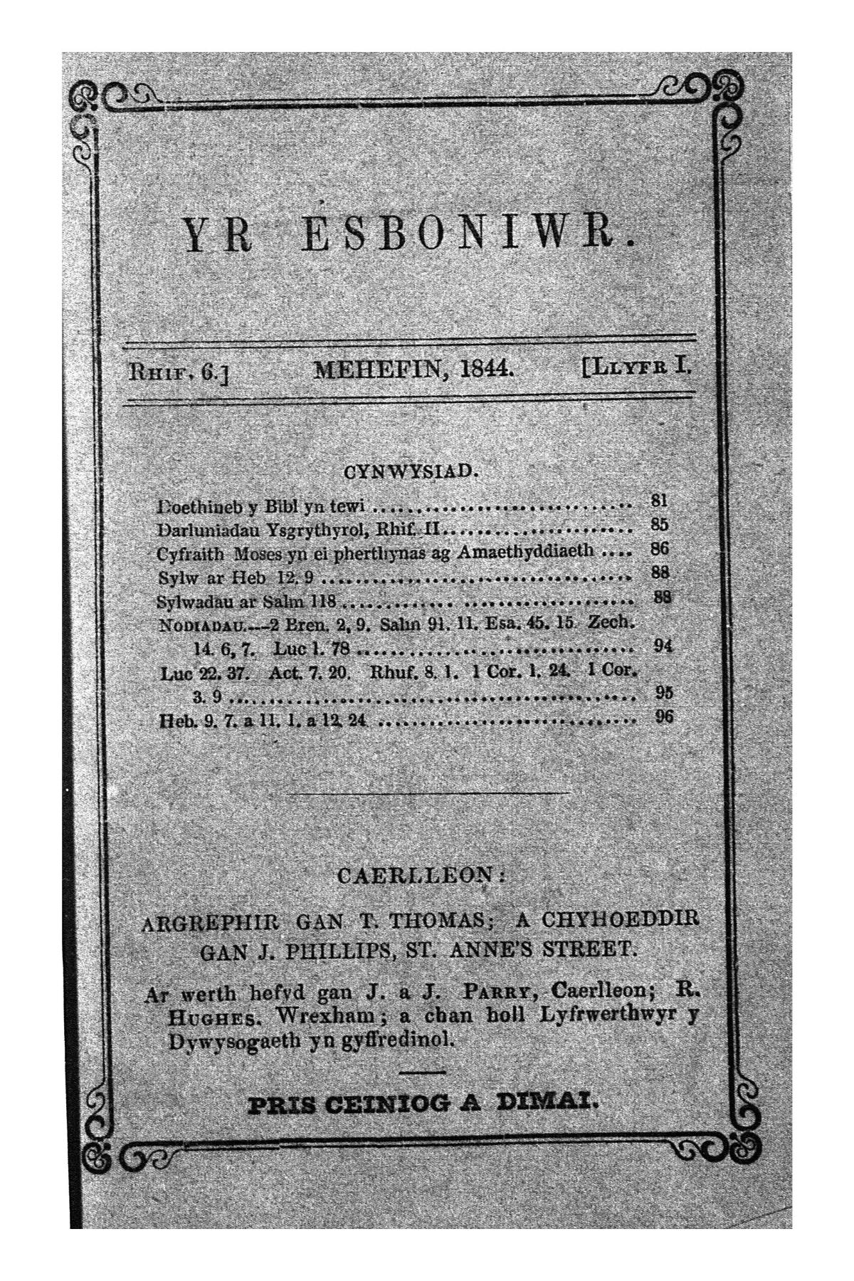 A monthly Welsh language religious periodical that mainly published Biblical commentaries intended for the Sunday schools. The periodical was edited by the theologian, teacher and principal of Bala Calvinistic Methodist College, Lewis Edwards (1809-1887).